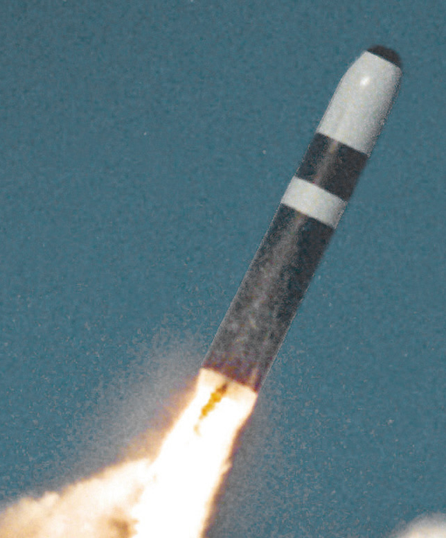 United States Trident II (D-5) missile underwater launch.